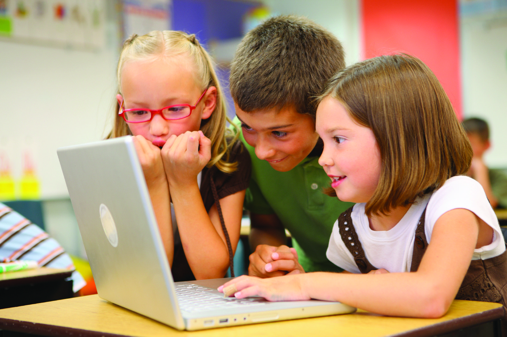 wifi camera